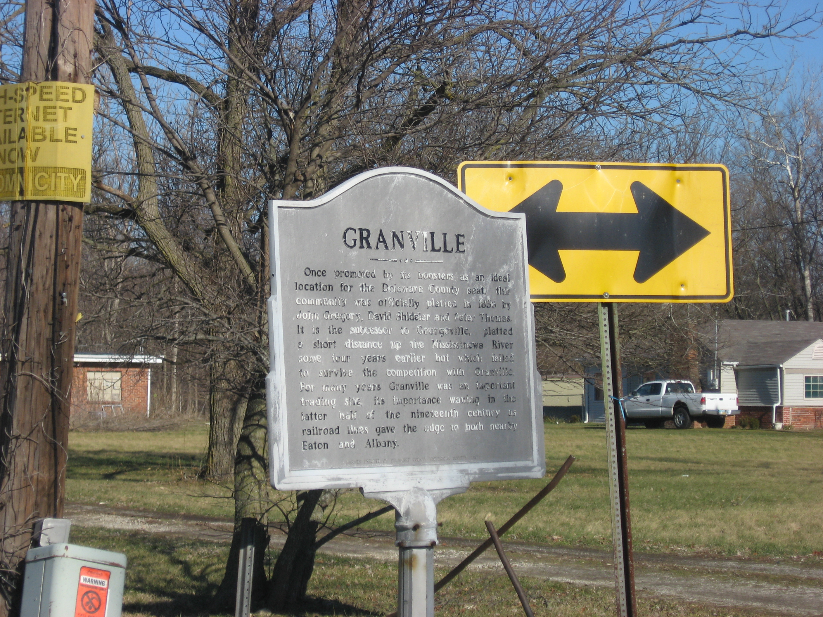 A historical marker at Granville in Niles Township, Delaware County, Indiana, United States. It was placed in 1971.